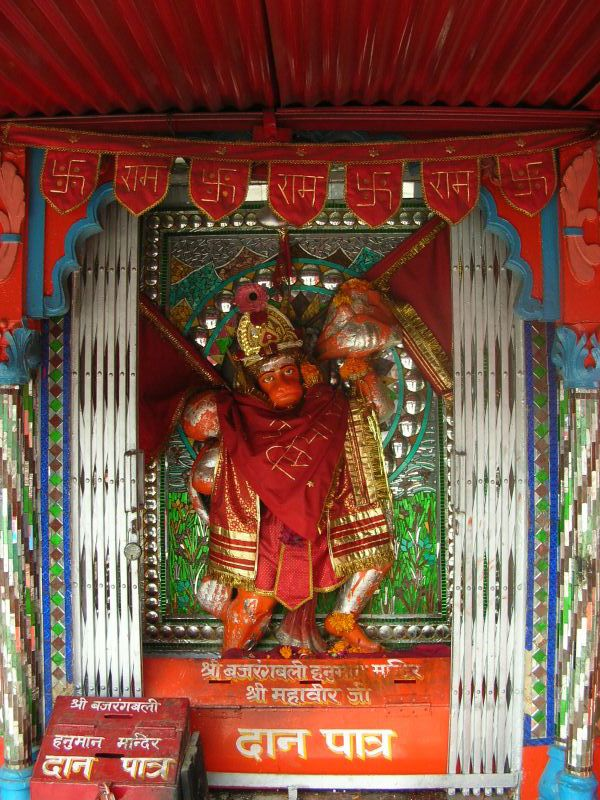 A Hanuman temple at Haridwar.